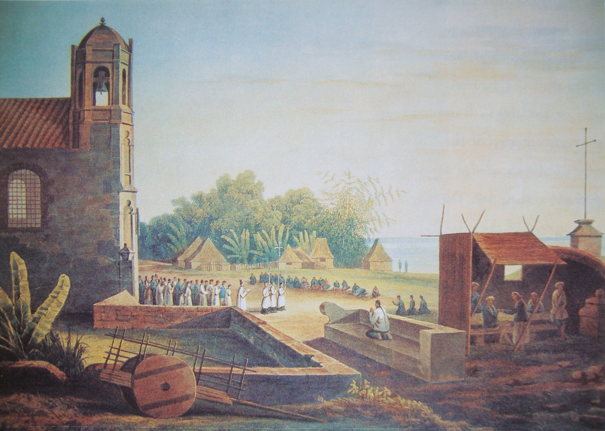 View of Malate Church in 1831, from Frenchman Cyrille Pierre Théodore Laplace's Voyage Autour du Monde par les Mers de l’Inde et de Chine.